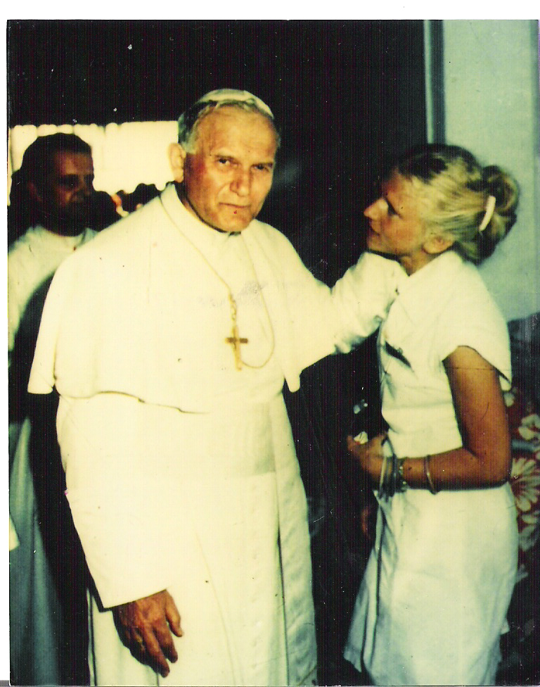 Estelle Satabin recieving John Paul II in this house in Gabon in 1983.